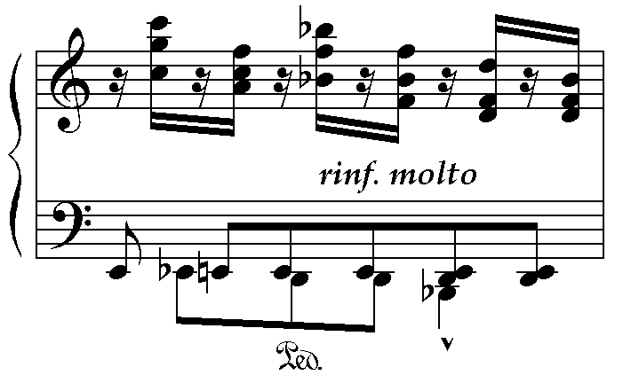 Example of an augmented unison in Franz Liszt's second Trancendental Etude, measure 63. File by the uploader based on a public domain work. - Rainwarrior 08:28, 2 September 2006 (UTC)